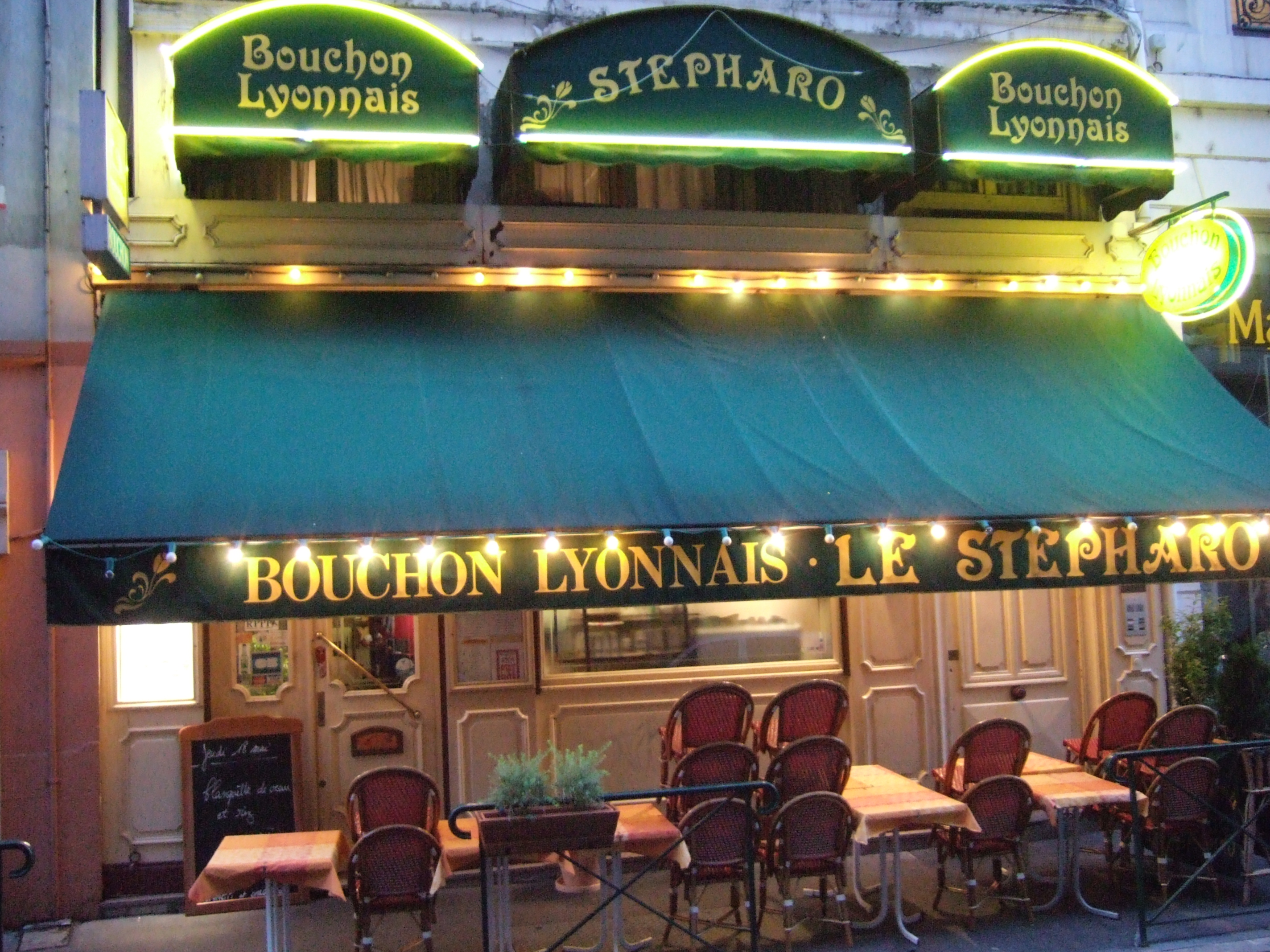 A "non-authentic" bouchon in Lyon. This restaurant is located 30, rue Tupin 69002 Lyon